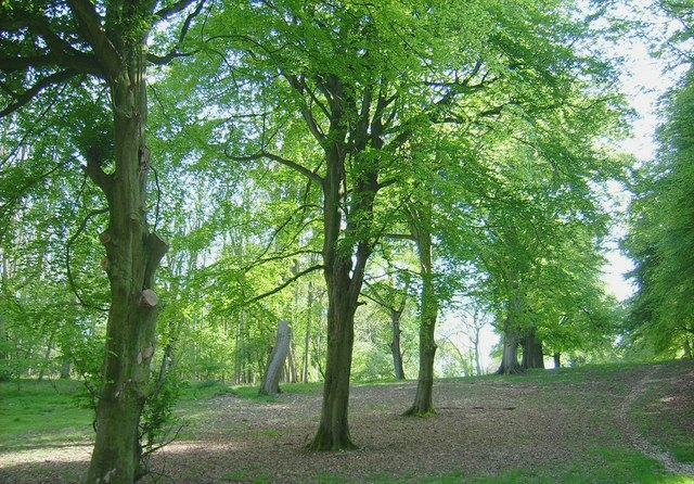 Forest Trail, Wychwood Forest A very beautiful downhill section of a trail within Wychwood Forest. This shot is looking South back into Wychwood. This picture is slightly overexposed, as the thick foliage here often lets through little sunlight. As a result, the ground here rarely dries out completely, making for interesting walking or cycling!